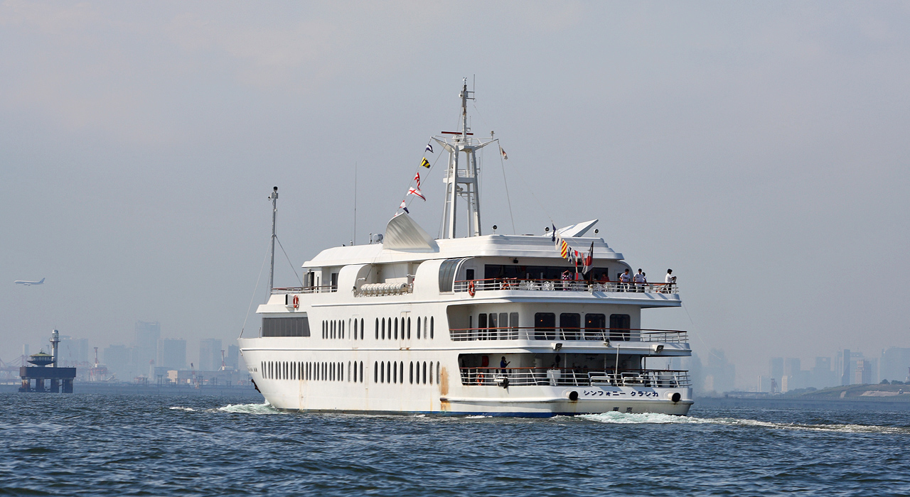 The Symphony Classica as a restaurant boat on the Tokyo Harbor cruising.